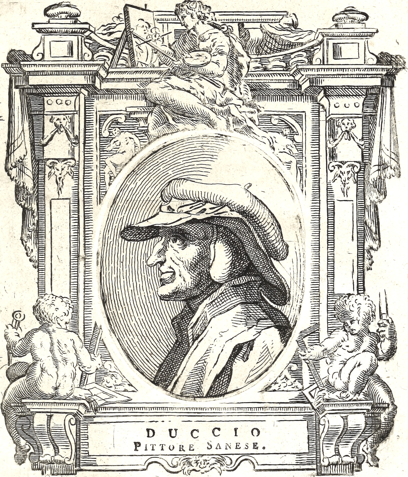 Title: Vite de più eccellenti pittori scultori ed architetti Year: 1767 (1760s) Authors: Vasari, Giorgio, 1511-1574 Coltellini, Marco, 1719-1777 printer Stecchi, Giovanni Batista, printer Pagani, Antonio Giuseppe, printer Masi, Tommaso, publisher Subjects: Artists Art, Italian Art, Renaissance Publisher: Livorno : Per Marco Coltellini Firenze : Per lo Stecchi e Pagani Text Appearing Before Image: ' Text Appearing After Image: VITA I D U C C I PITTORE SANESE. SEnza dubbio coloro che fono inventori dalcuna cofanotabile , hanno grandiffirna parte nelle penne di chiferine 1 iflorie; e ciò avviene, perchè fono più ofièrvate,e con maggiore maraviglia tenute le prime invenzioni perIo diletto, che feco porta la novità della cofa, che quantimiglioramenti fi fanno poi, da qualunque fi fia, nelle cofe,che fi riducono allultima perfezione. Attefochè fé mai aniuna cofa non fi deflè principio, non erefeerebbono dimiglioramento le parti di mezzo, e non verrebbe il fineottimo, e di bellezza maravigliofa. Meritò dunque Duccio Dntciofuìlpittore Sanefe, e molto (limato, portare il vanto di quelli Pflì!ì° c^e mùche dopo lui fono fiati molti anni, avendo nei pavimenti f(^/^2£del Duomo di Siena dato principio di marmo a i rimeflì vimentì didelle figure di chiaro, e feuro, nelle quali oggi i moderni marmo figureartefici hanno fatto le maraviglie, che in elfi li veggono. ^ ctyar»., eAttefe coftui all imitazione